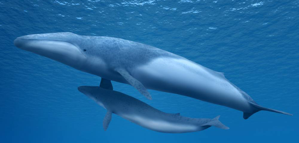 Crop of file in filename